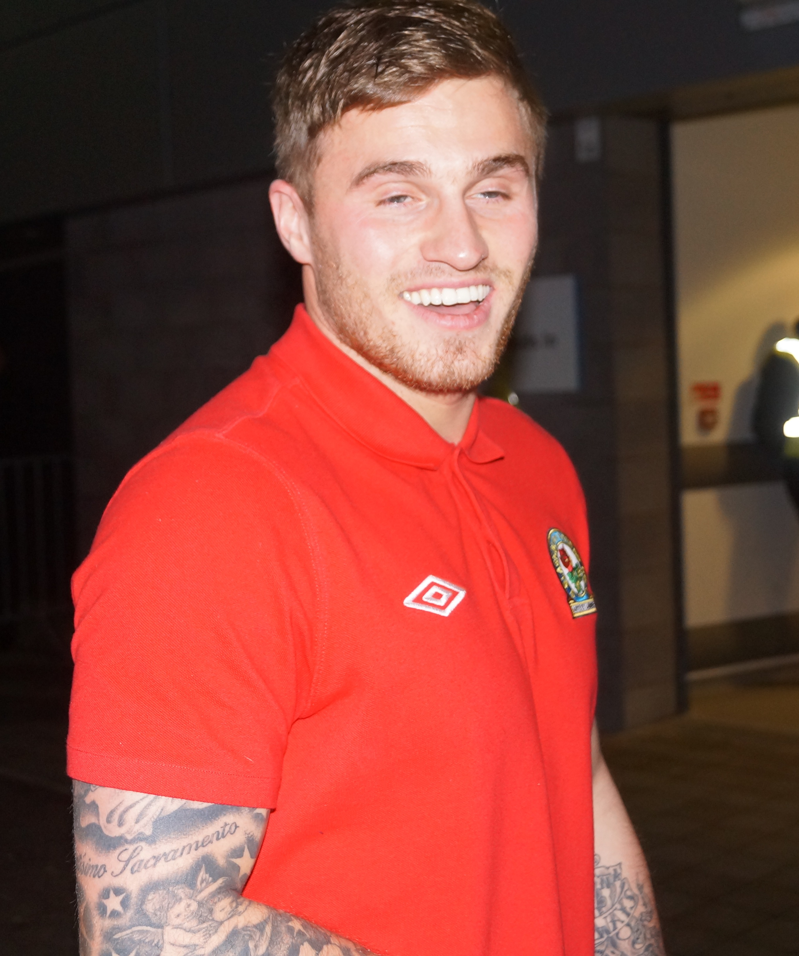 David Goodwillie 12/02/2013